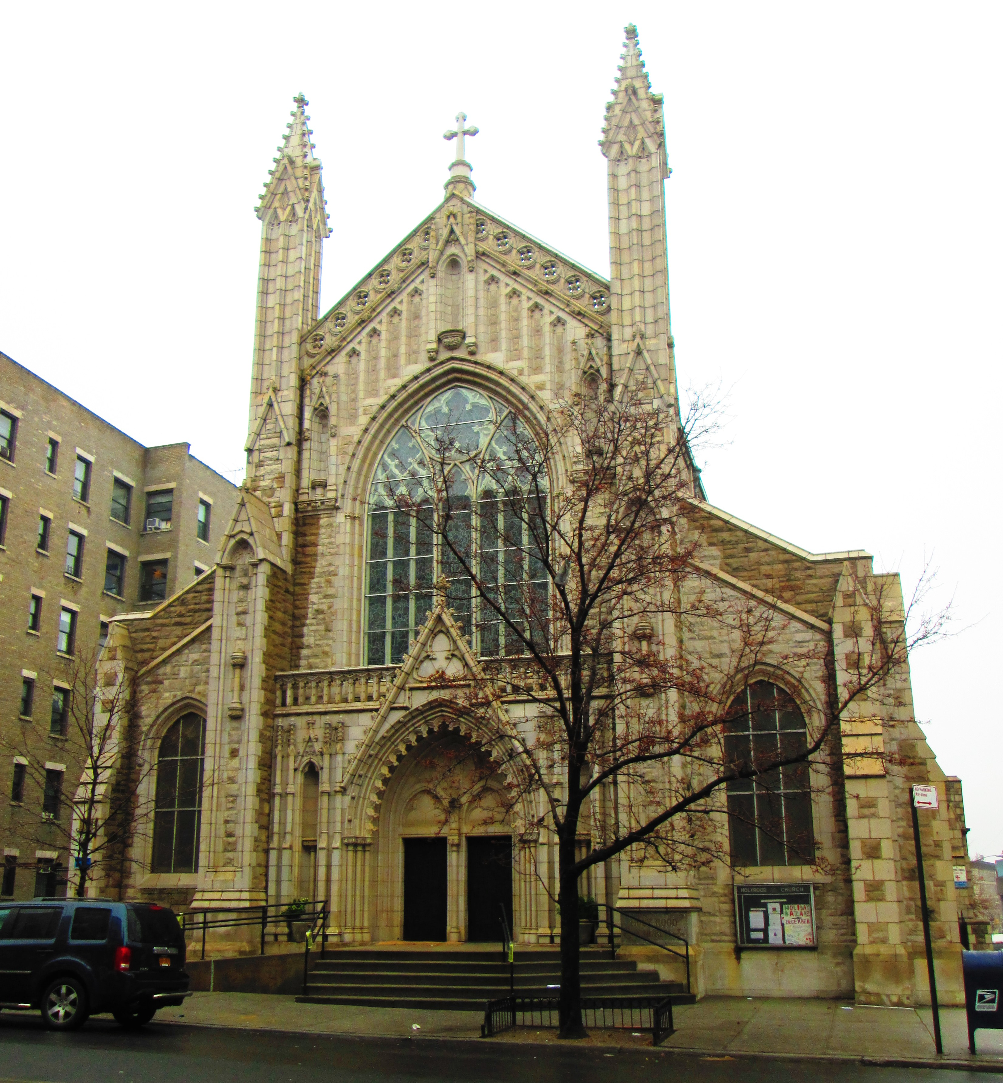 The Holyrood (Episcopal) Church, on Fort Washington Avenue at the corner of West 179th Street in the Washington Heights neighborhood of Manhattan, was built in 1914 and was designed in the Gothic Revival style by Bannister & Schell (William F. Bannister and Richard M. Schell). The facility is shared with the Iglesia Santa Cruz. (Source: From Abyssinian to Zion (2004))